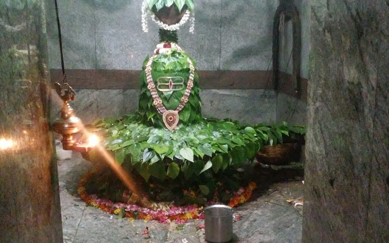 Sri Bhogeshwara swami in Pamidi Village